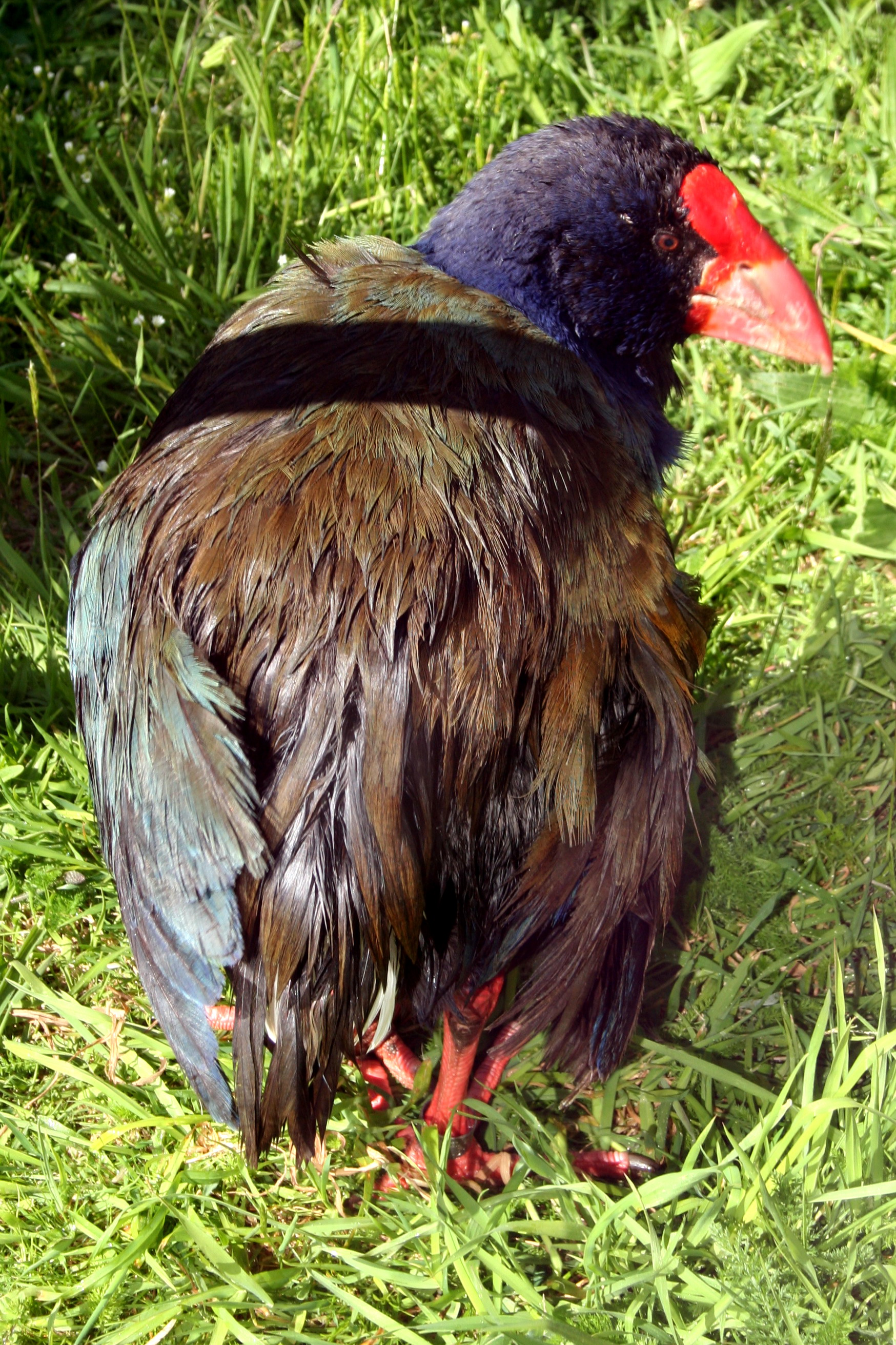 South Island Takahe, Porphyrio hochstetteri, in aviary.